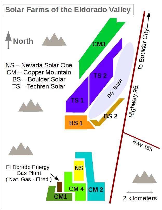 This image shows the layout of the El Dorado Energy Gas Plant, Nevada Solar One, Copper Mountain Solar (phases 1-4), Boulder Solar (phases 1-2), and Techren Solar (phases 1-2) in the Boulder City Eldorado Energy Zone.